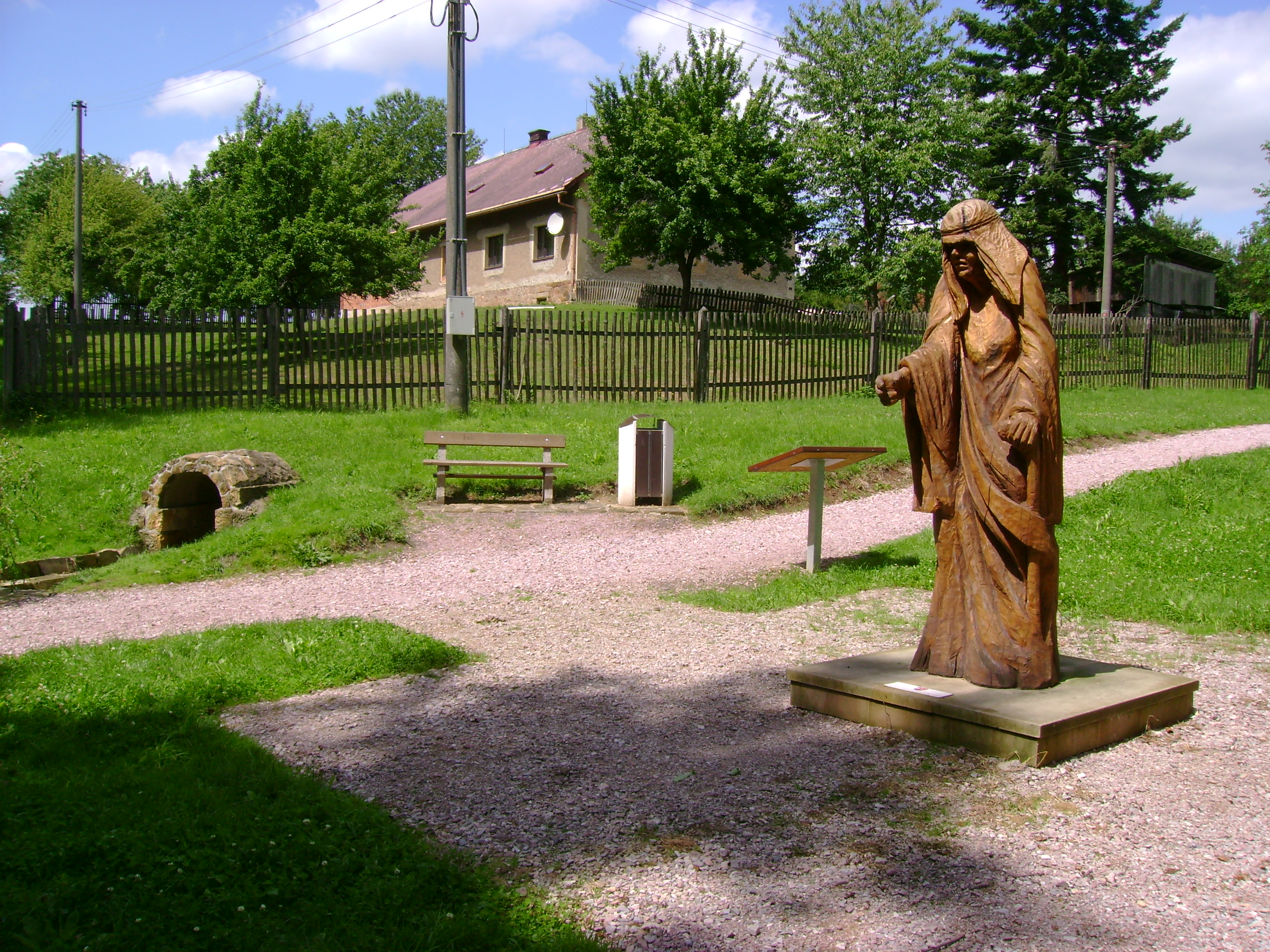 The statue of "Lady Midday" (Polednice) in Miletín, Jičín District, the Czech Republic.Unveiled on June 19, 2010. Sculptor: Michal Jára (b. 1977).